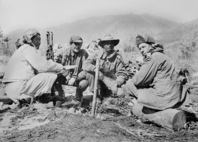 Three members of the 3rd Battalion, The Royal Australian Regiment (3RAR), confer with a North Korean interpreter (left) who is serving with the battalion. The Australian soldiers are (left to right): Warrant Officer (WO) W.J. ('Bill') Harrison, the Regimental Sergeant Major (RSM); 3/37678 Lieutenant (Lt) Reginald Walter Saunders, second-in-command of 'A' Company; 3/46514 Private (Pte) W.H. ('Alby') Alberts of the Sniper Section. The men are gathered around a small campfire on which a billy is boiling. All three Australian soldiers are wearing padded windproof jackets as protection against the cold, while WO Harrison and Pte Alberts are also wearing pile caps. Lt Saunders is smoking a pipe and Pte Alberts a cigarette. The Korean interpreter, who is wearing a traditional fur-lined cap and other warm clothing, is holding a Bren gun. Lt Saunders later became the first Aboriginal serviceman to command a rifle company.